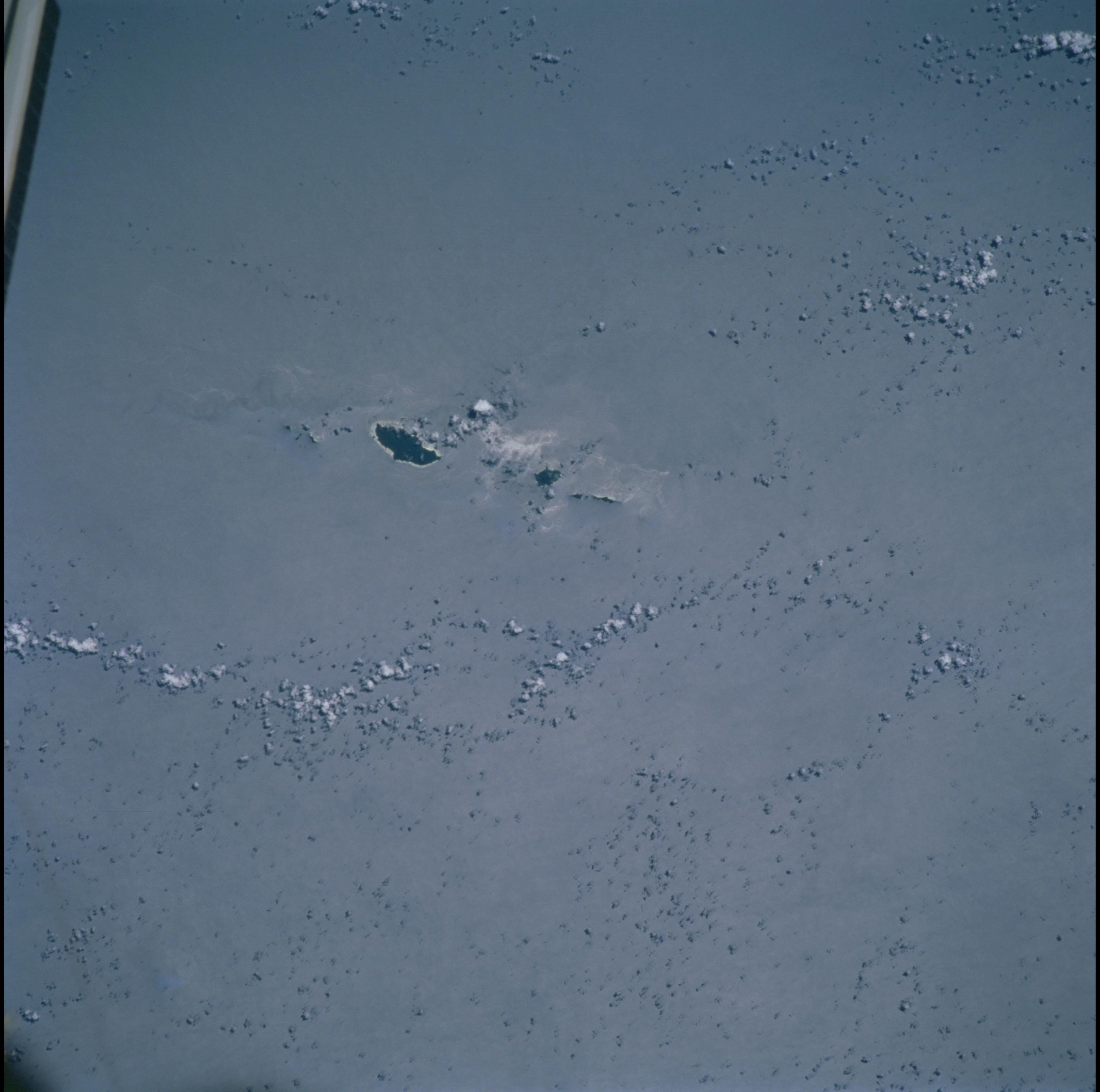 NASA astronaut image of Solomon Islands, Duff Islands, Sunglint in the Pacific Ocean